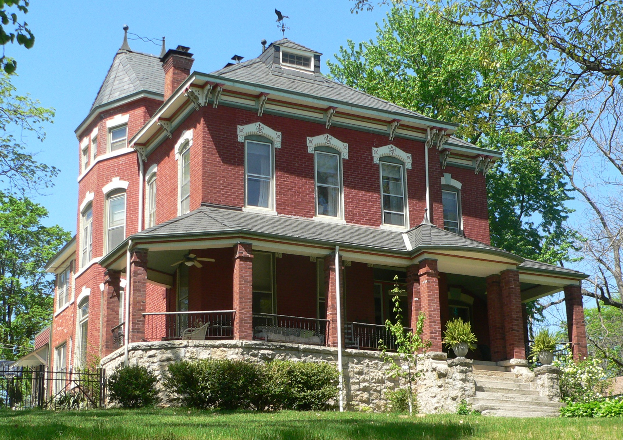 Edgar W. Howe house, located at 1117 N. 3rd Street in Atchison, Kansas; seen from the east-southeast.